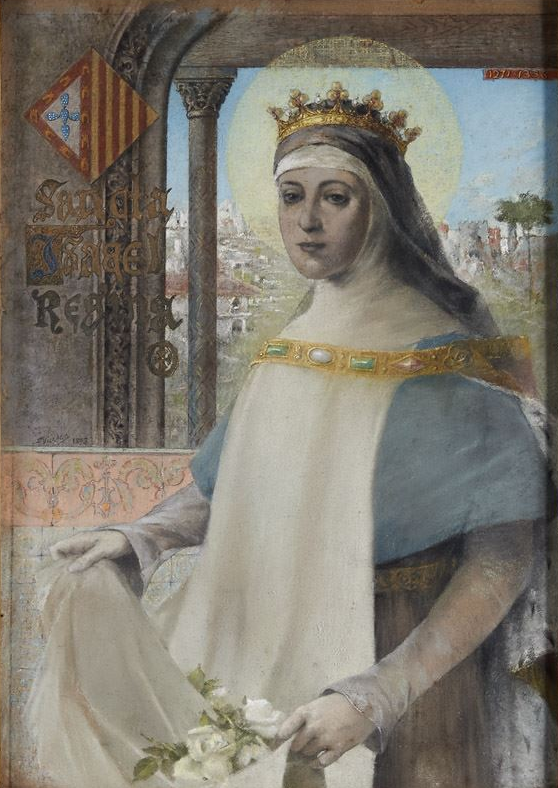 "Sancta Isabel Regina"